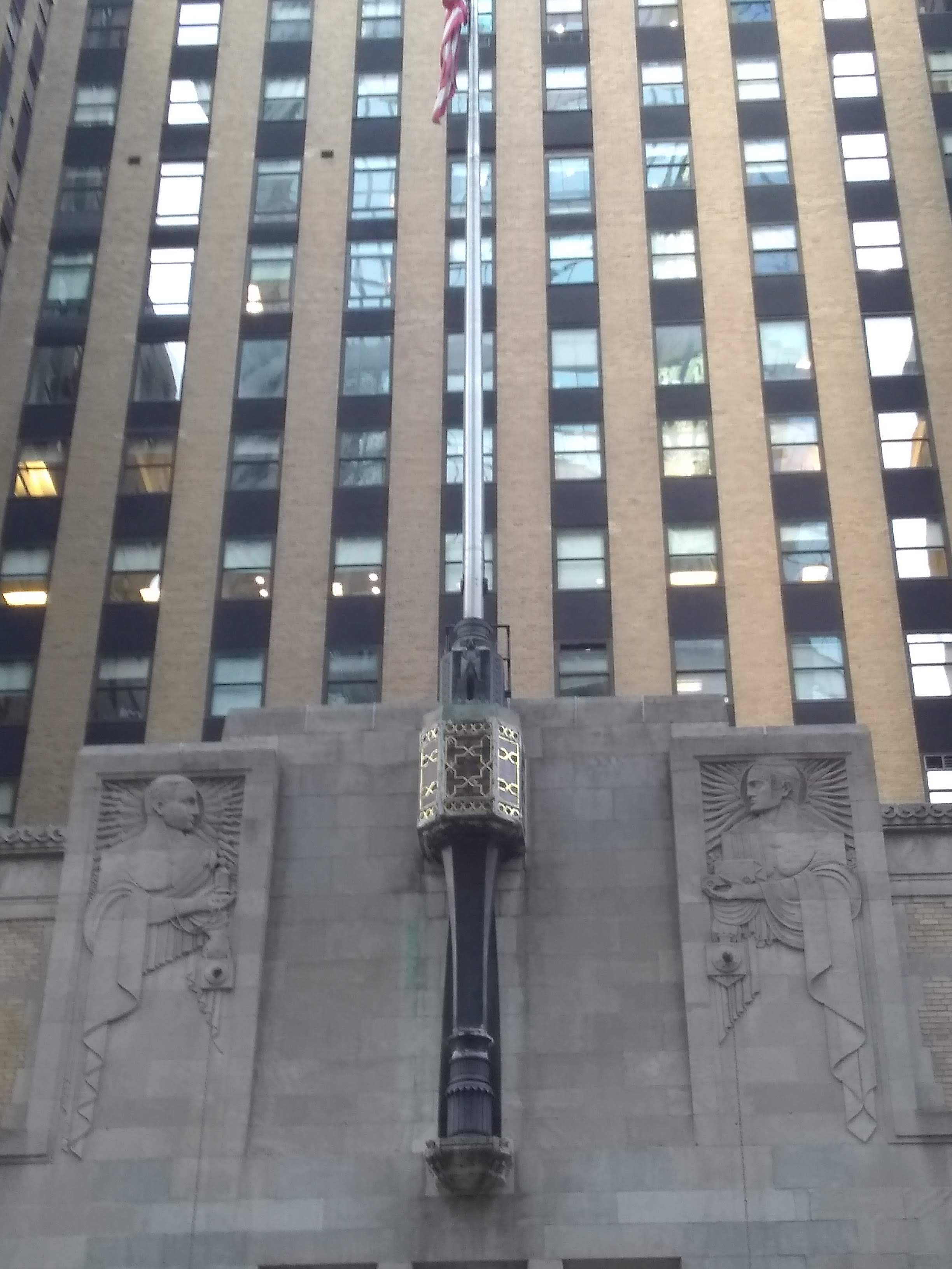 Exterior of the Graybar Building in Manhattan, New York